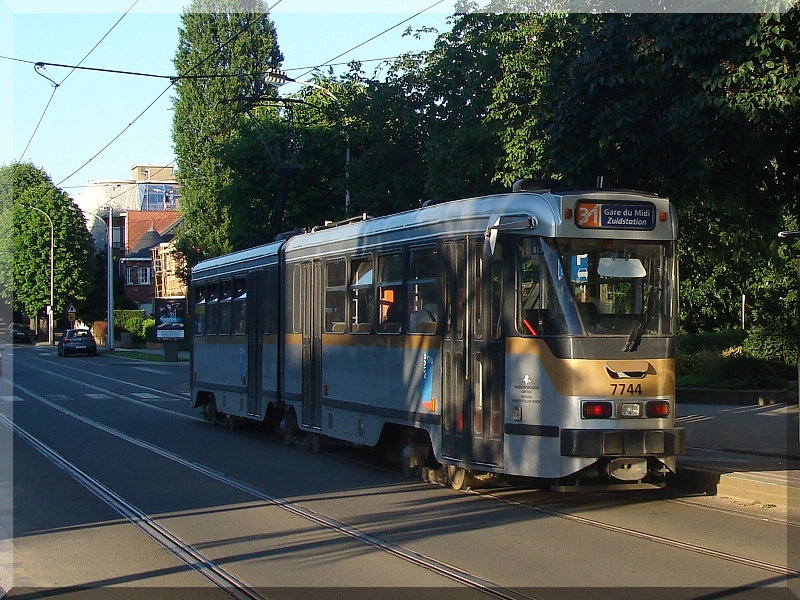 Motor coach 7744 on the line 31 at Van Beethoven limited at the South Station